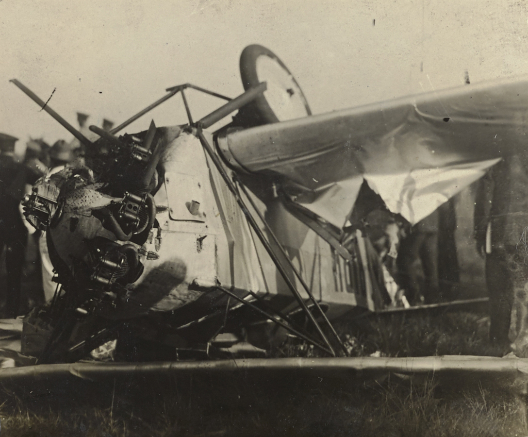 Airplane_shot_down_by_São_Paulo_troops_september_1932